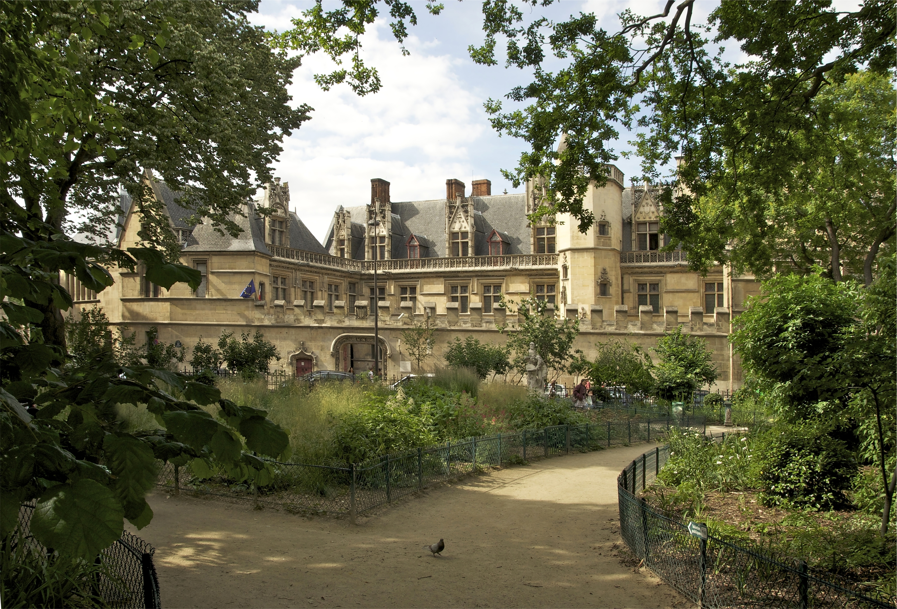 Hôtel de Cluny, seen through square Paul Painlevé, Paris, 5th arrondissement.